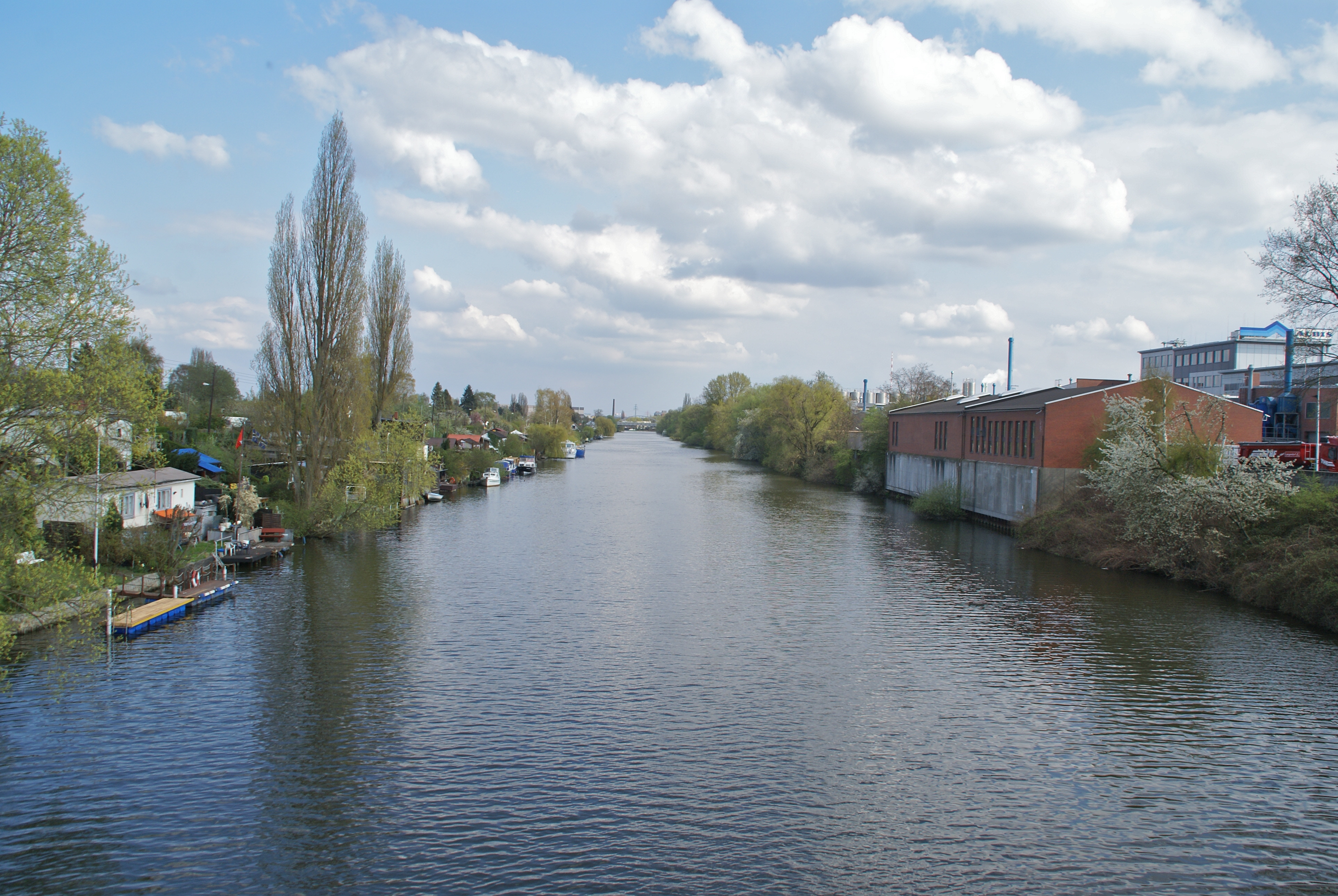 Hamburg (Rothenburgsort), Germany: The Bullenhuser Kanal in eastern direction